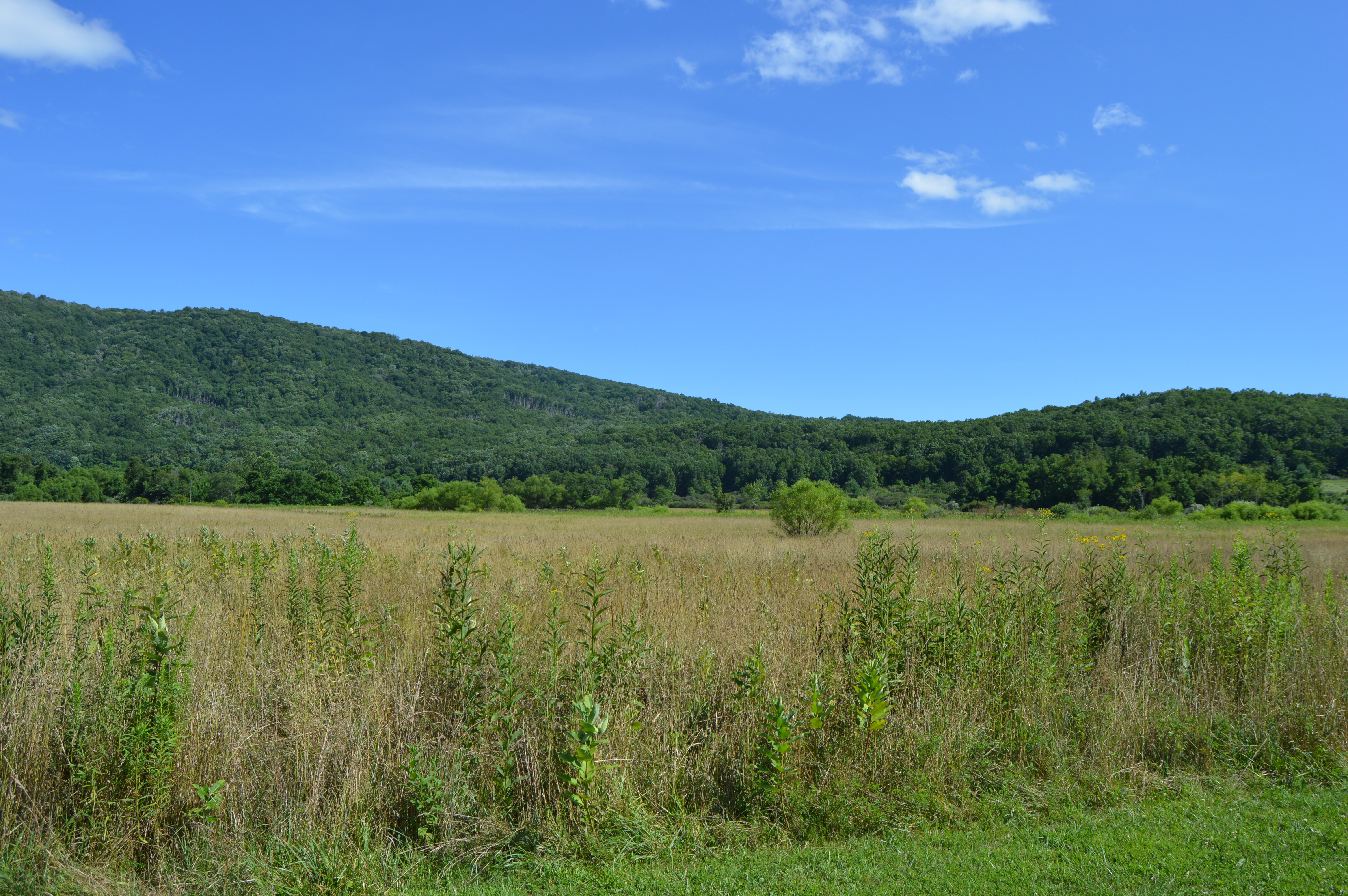 Scenery in the Hidden Valley of Bath County, Virginia, United States, looking south from a parking area in the valley's north-central section.